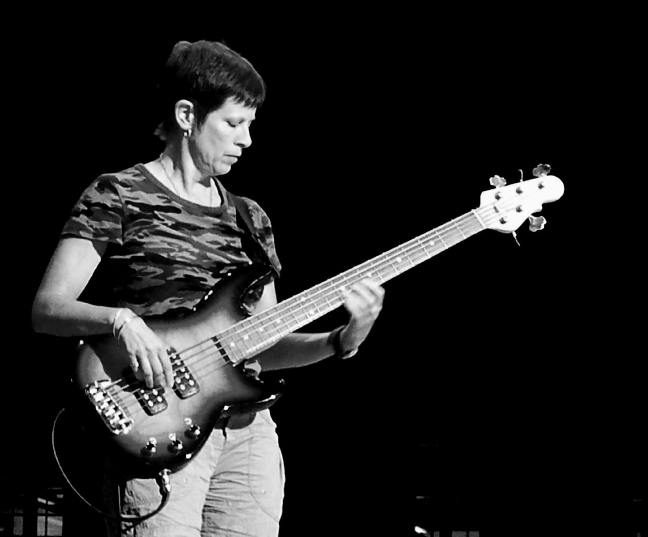 Sara Lee, performing with the Indigo Girls, in Lowell, MA